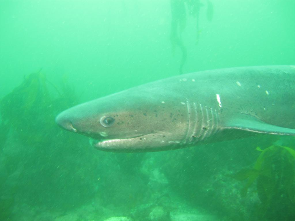 Broadnose sevengill shark (Notorynchus cepedianus) in False Bay